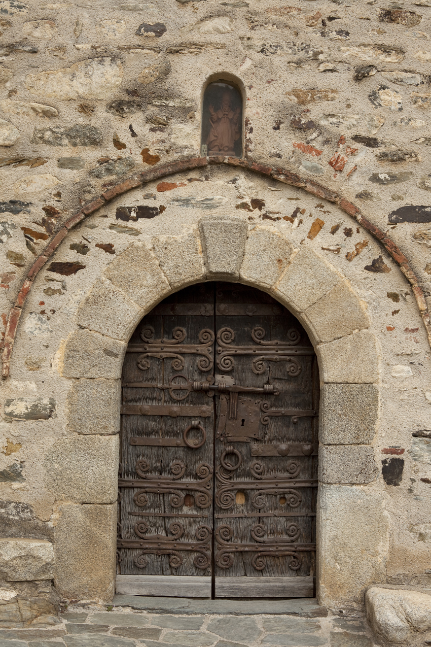 Door of the Saint-Saturnin church, in Boule-d'Amont, Pyrénées-Orientales.